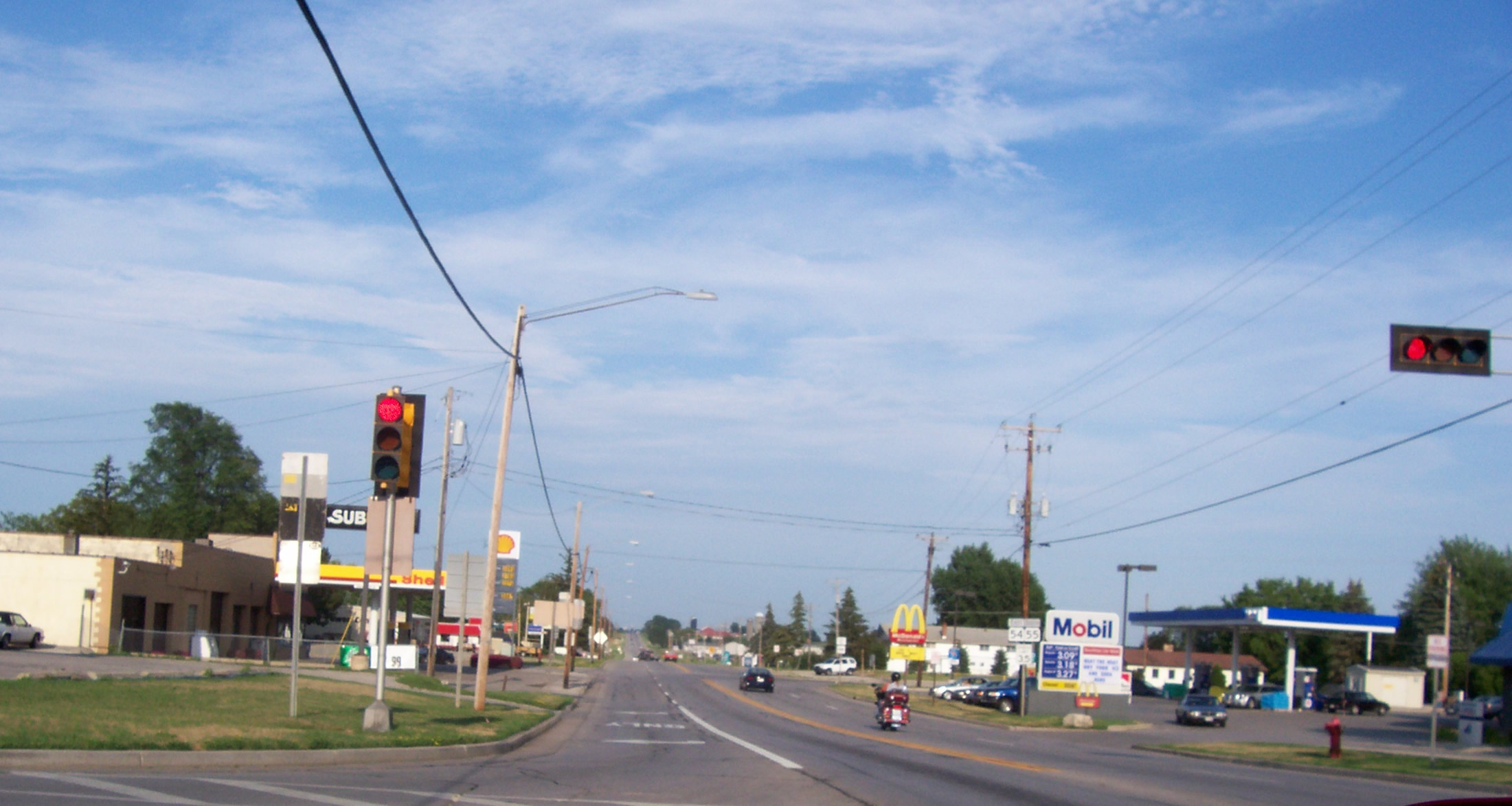 Looking east in Seymour, Wisconsin, USA. I took this image myself on July 30, 2006. The road north of the intersection is Hwy 55, the road west of the intersection is Hwy 54, and the road to the east (in view) is combined Hwy 55 and Hwy 54. The two roads run together for about 2 miles before Hwy 55 turns south. Category:Images of Wisconsin highways